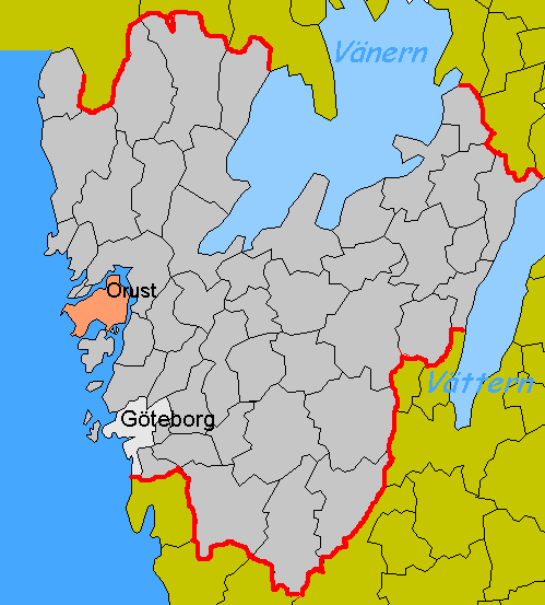 Orust Municipality in Sweden